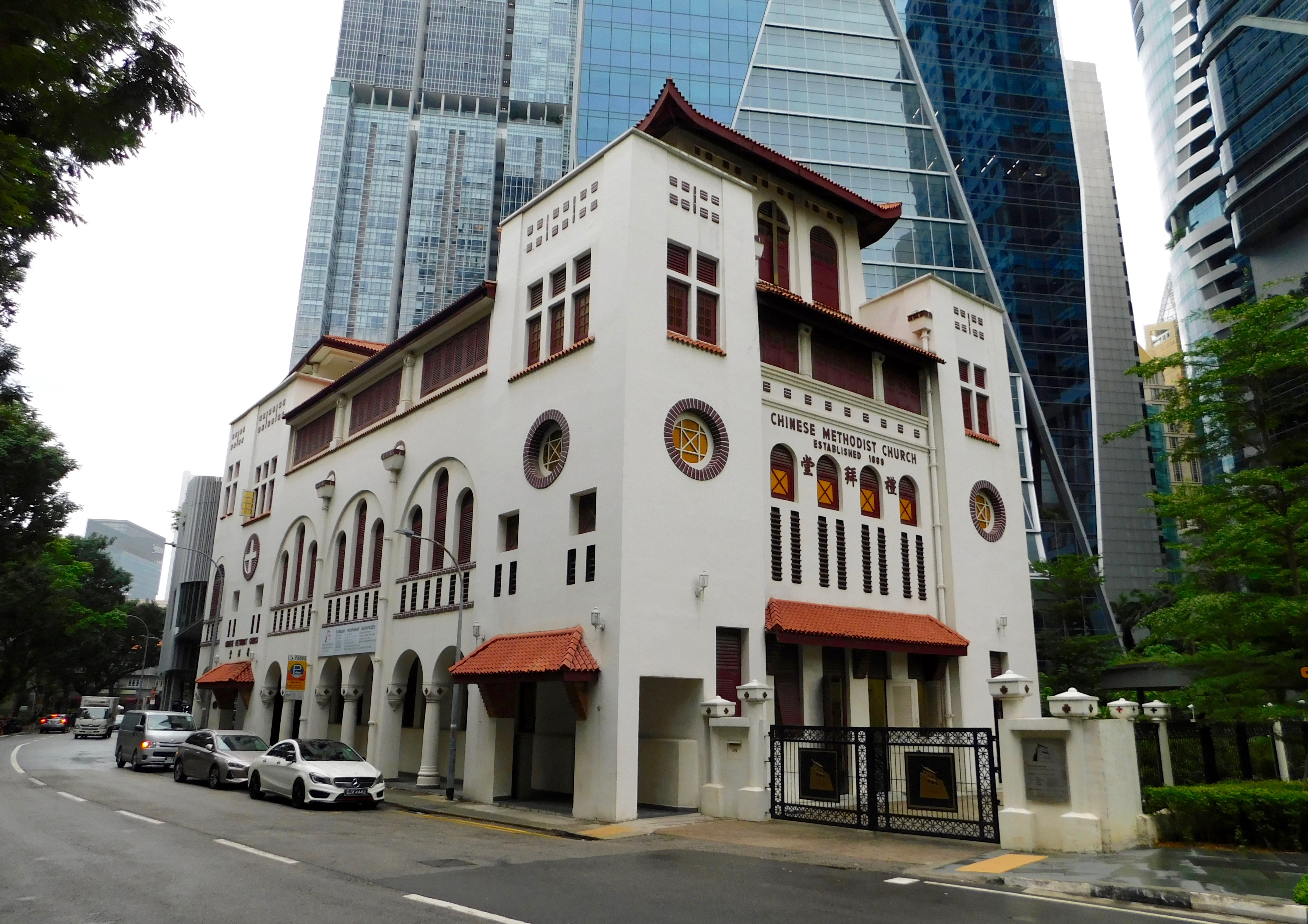 The Telok Ayer Chinese Methodist Church (TA1) is located on 235 Telok Ayer Street, Singapore.